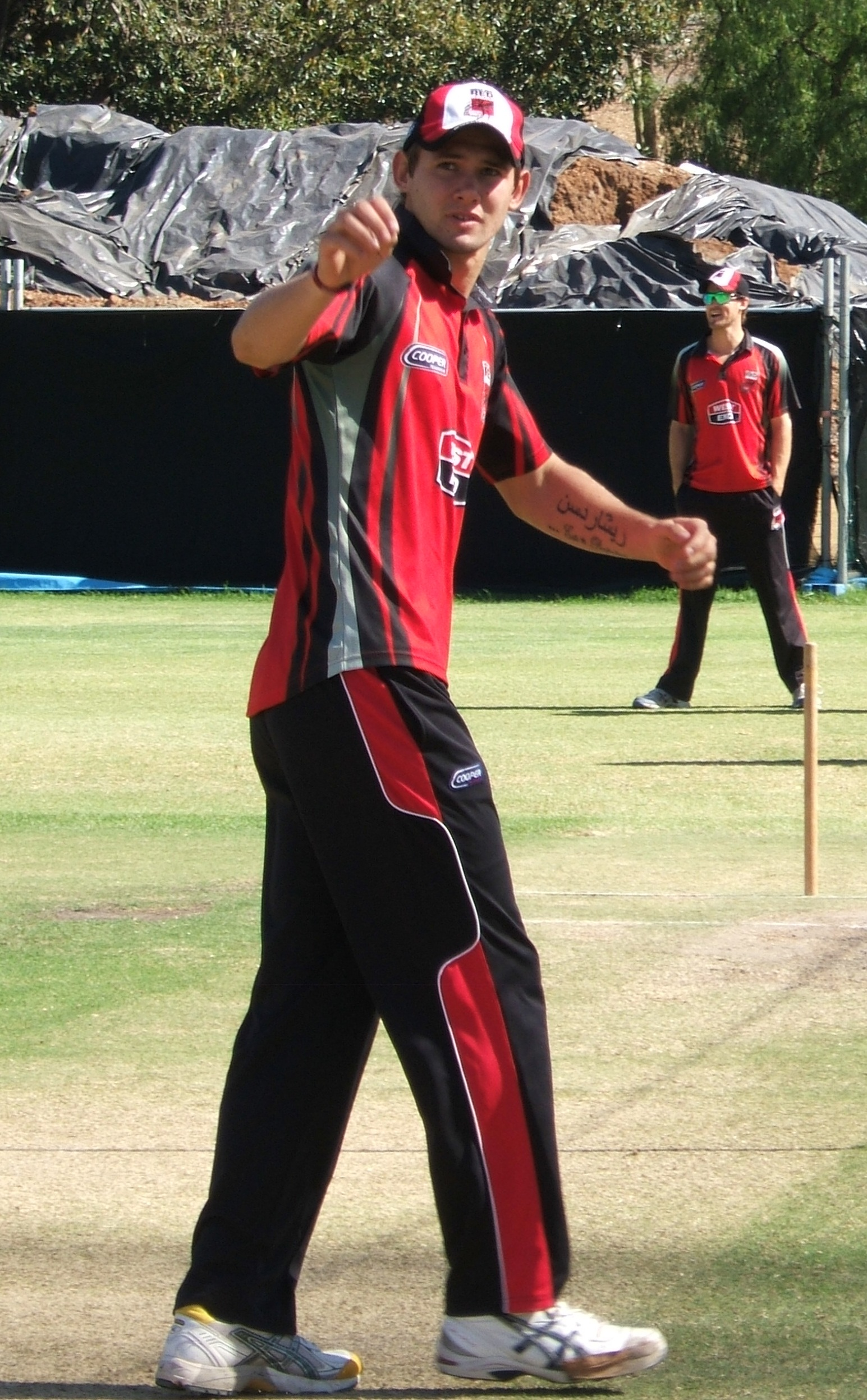 Named person engaging in named action at Adelaide Oval nets/training ground